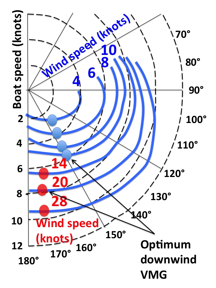 Downwind polar diagram to determine velocity made good at various wind speeds for a hypothetical displacement sailboat and sail plan. The blue and red dots denote the optimum downwind velocity made good (VMG) for each wind speed. For example, for a windspeed of 10 kts, optimum VMG is almost 6 kts on a course of 150°, whereas for a windspeed of 20 kts, optimum VMG is almost 8 kts on a course of 174°. After Textor, Ken (1995) The New Book of Sail Trim, Sheridan House, Inc., pp. 228 ISBN: 0924486813. , pp. 52-3.